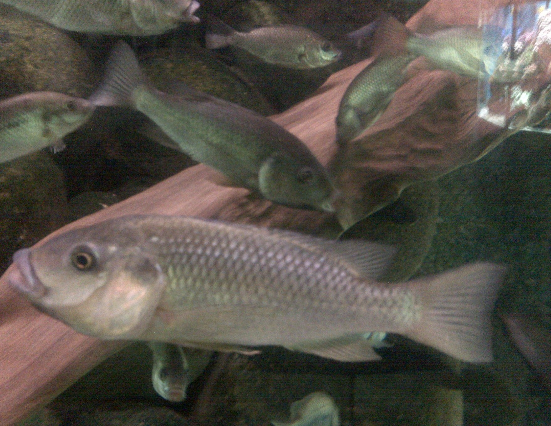 Sarotherodon linnellii, London Zoo.